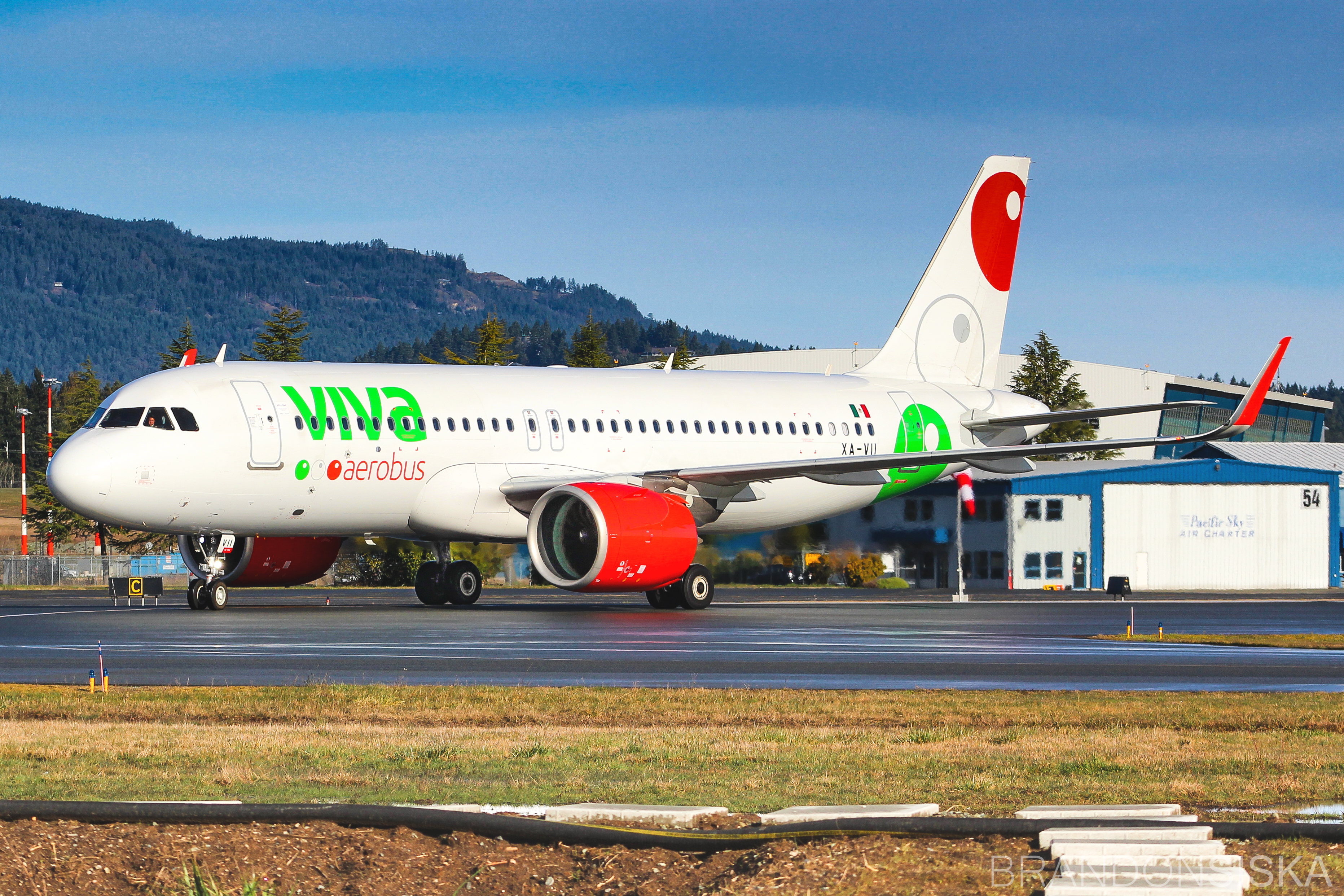 VivaAerobus A320neo arriving from Mazatlan.